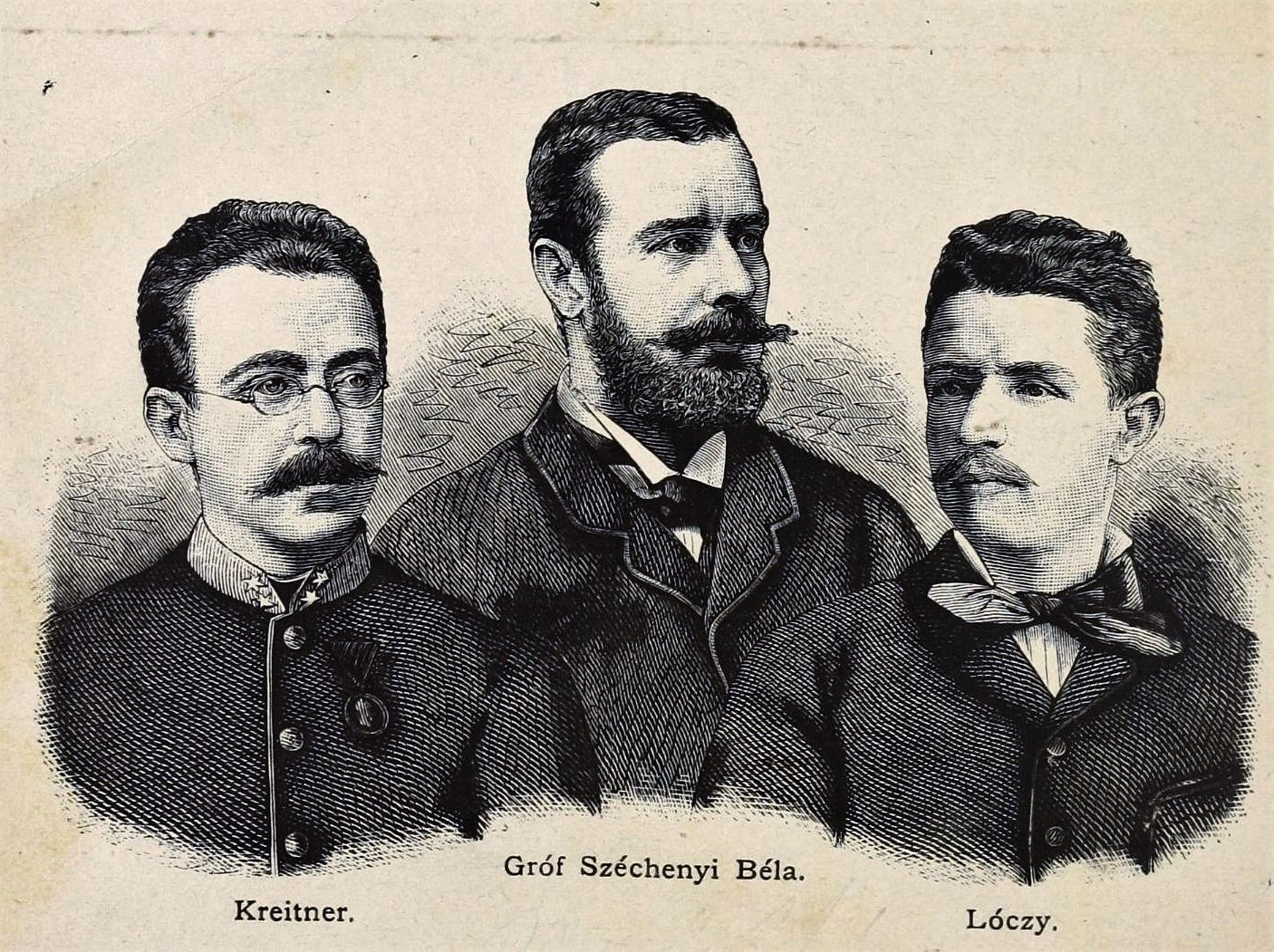 Kreitner-Széchenyi-Lóczy Kreitner Gusztáv: Gróf Széchenyi Béla keleti utazása India, Japan, China, Tibet és Birma országokban / Budapest, Révai, 1882.